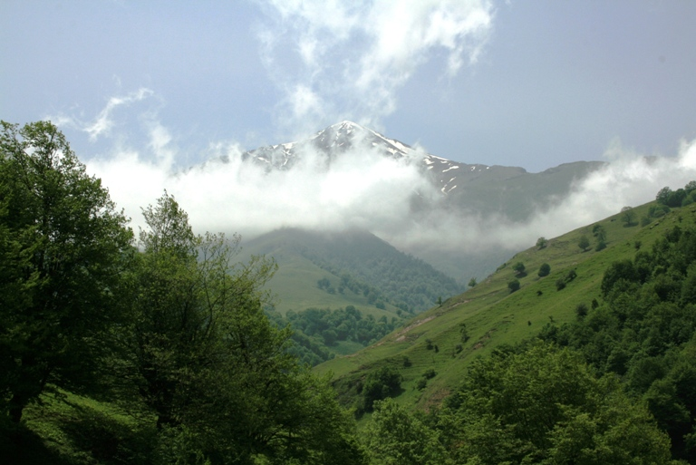 murov mountain in Azerbaijan/Caucasus